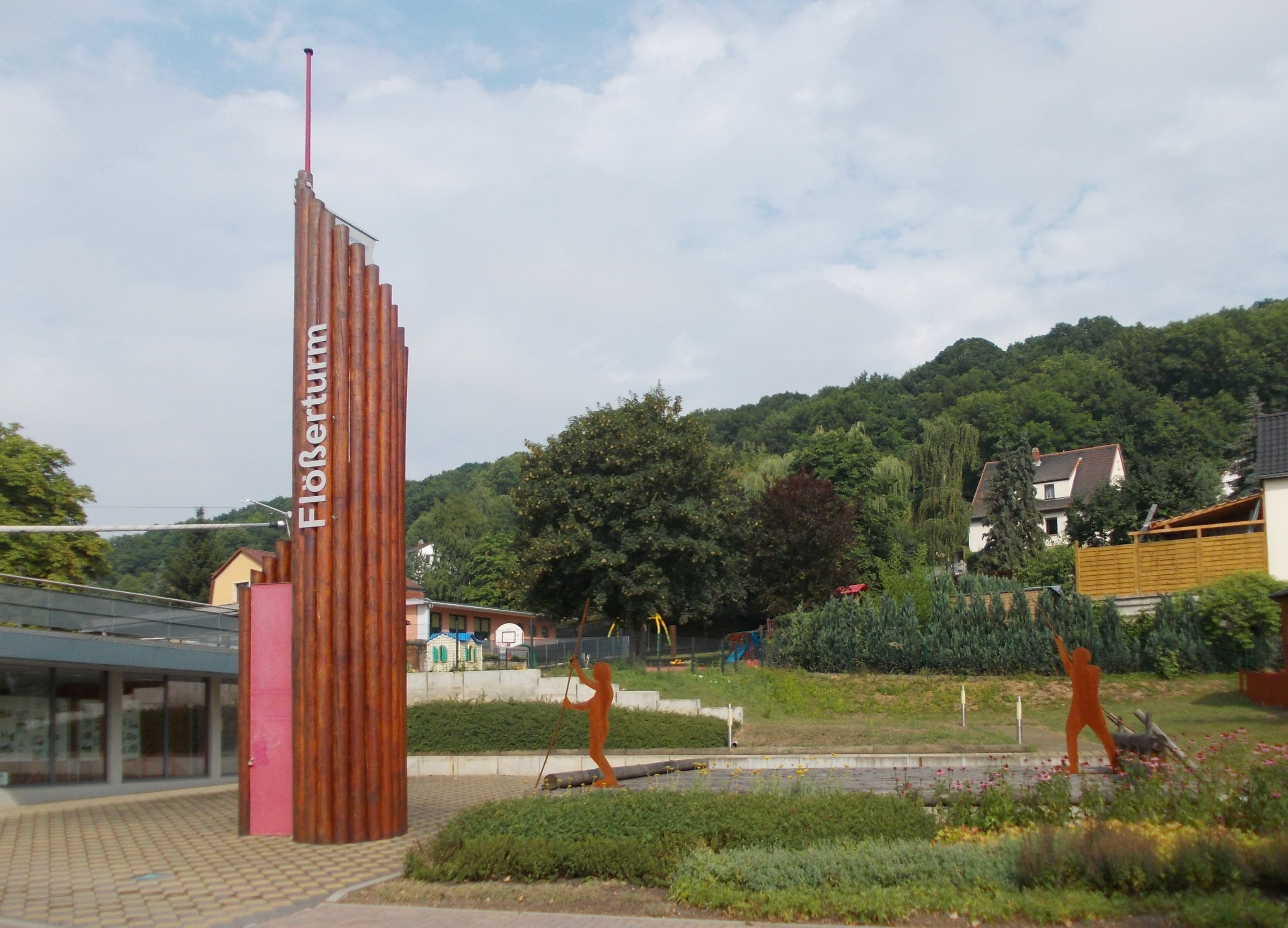 Raftsmen's tower in Unterneusulza (Grossheringen, district of Weimarer Land, Thuringia)